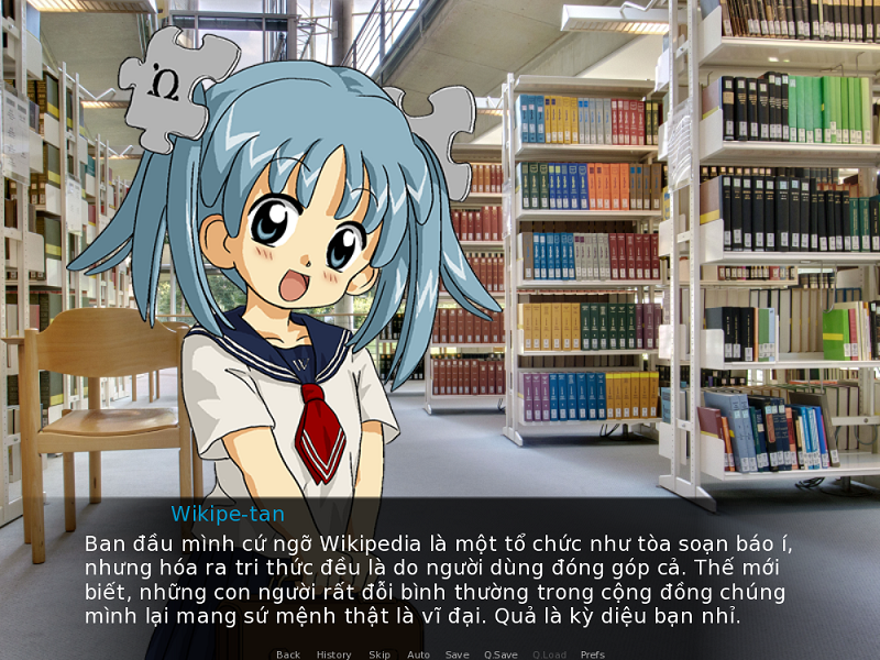 An illustration of a Visual Novel scene created in Ren'py.